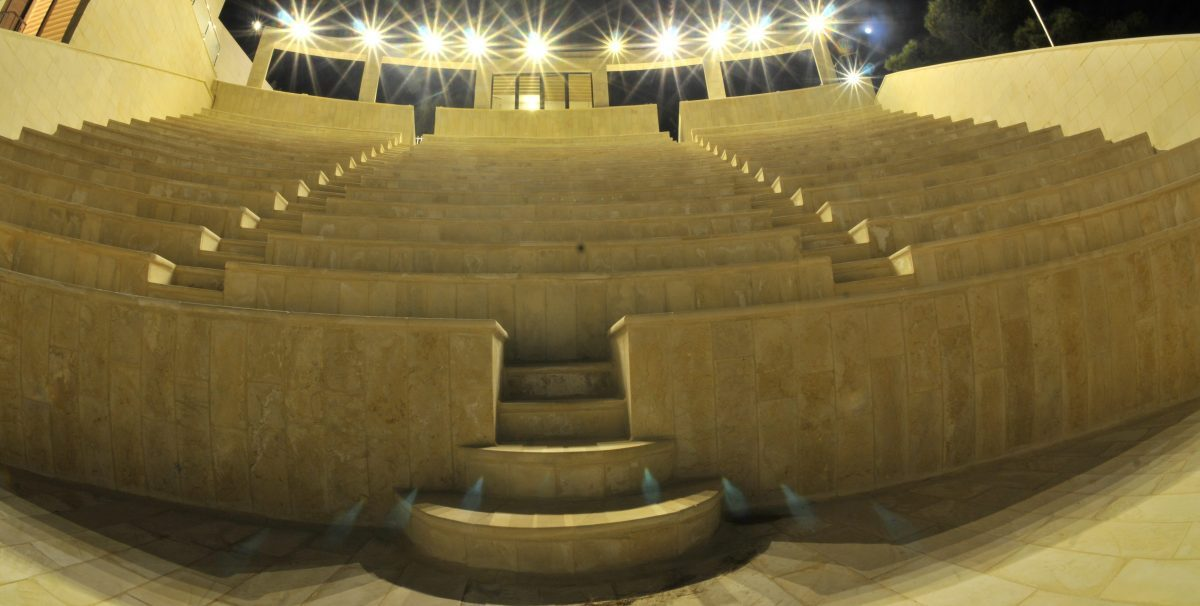 Jalaad Cultural Center